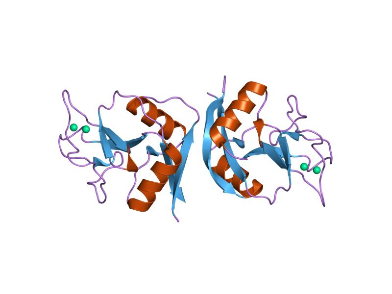 Cartoon representation of the molecular structure of protein registered with 1msb code.